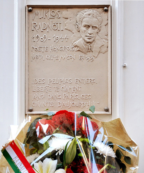 Commemorative plaque for Miklós Radnóti by the entrance of the Hôtel des 3 Collèges - Flowers laid by Hungarian Prime Minister Gordon Bajnai